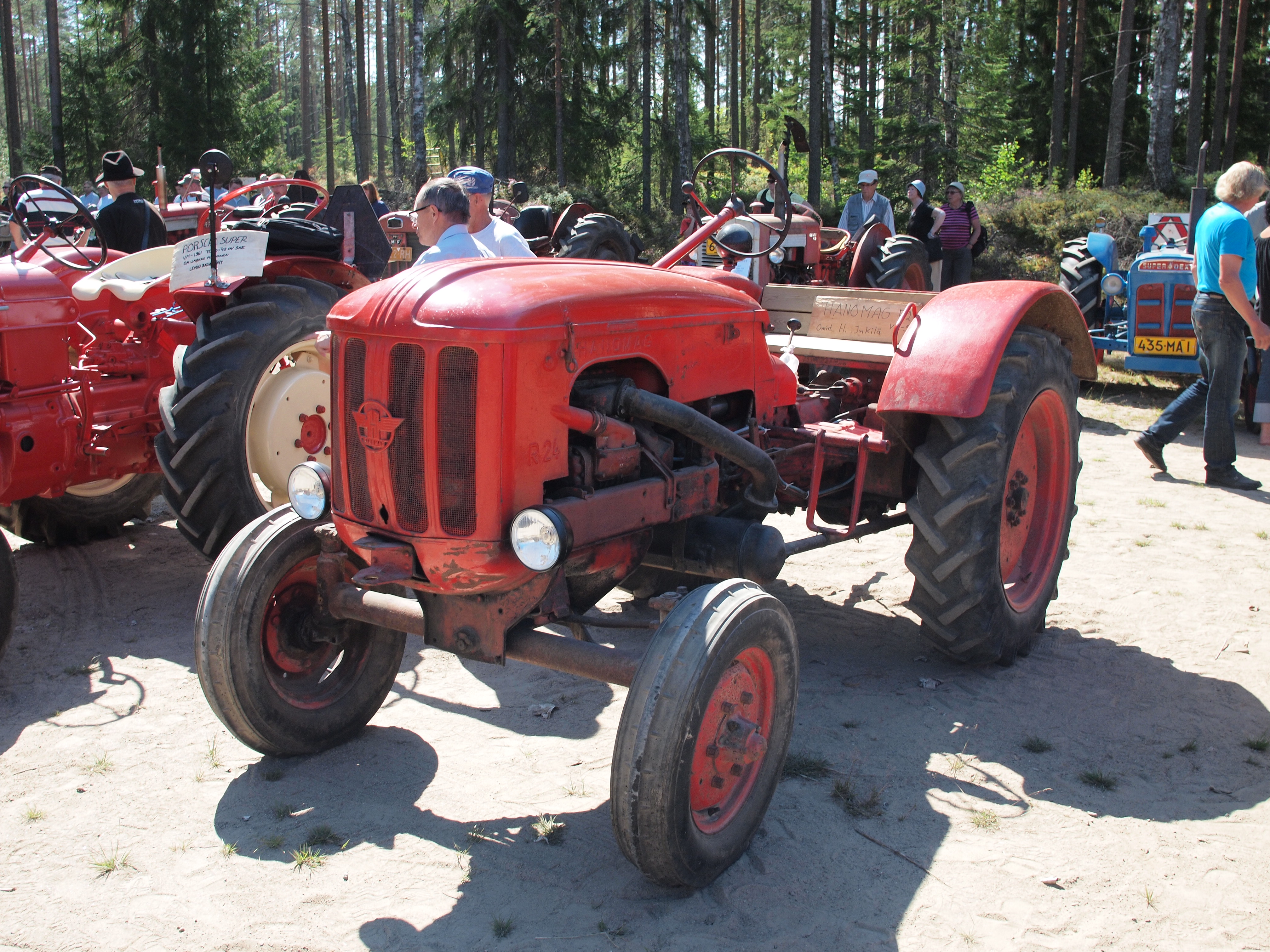 Hanomag R24 1956